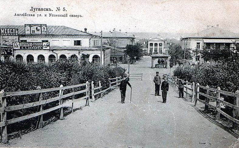 English Street in Luhansk.